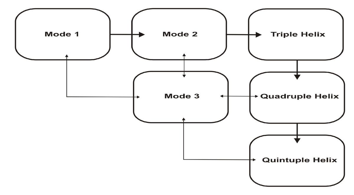 Evolution of the models of knowledge creation within the field of innovation economics; the copyright for this image is owned by Elias G. Carayannis and transferred to Wikimedia.